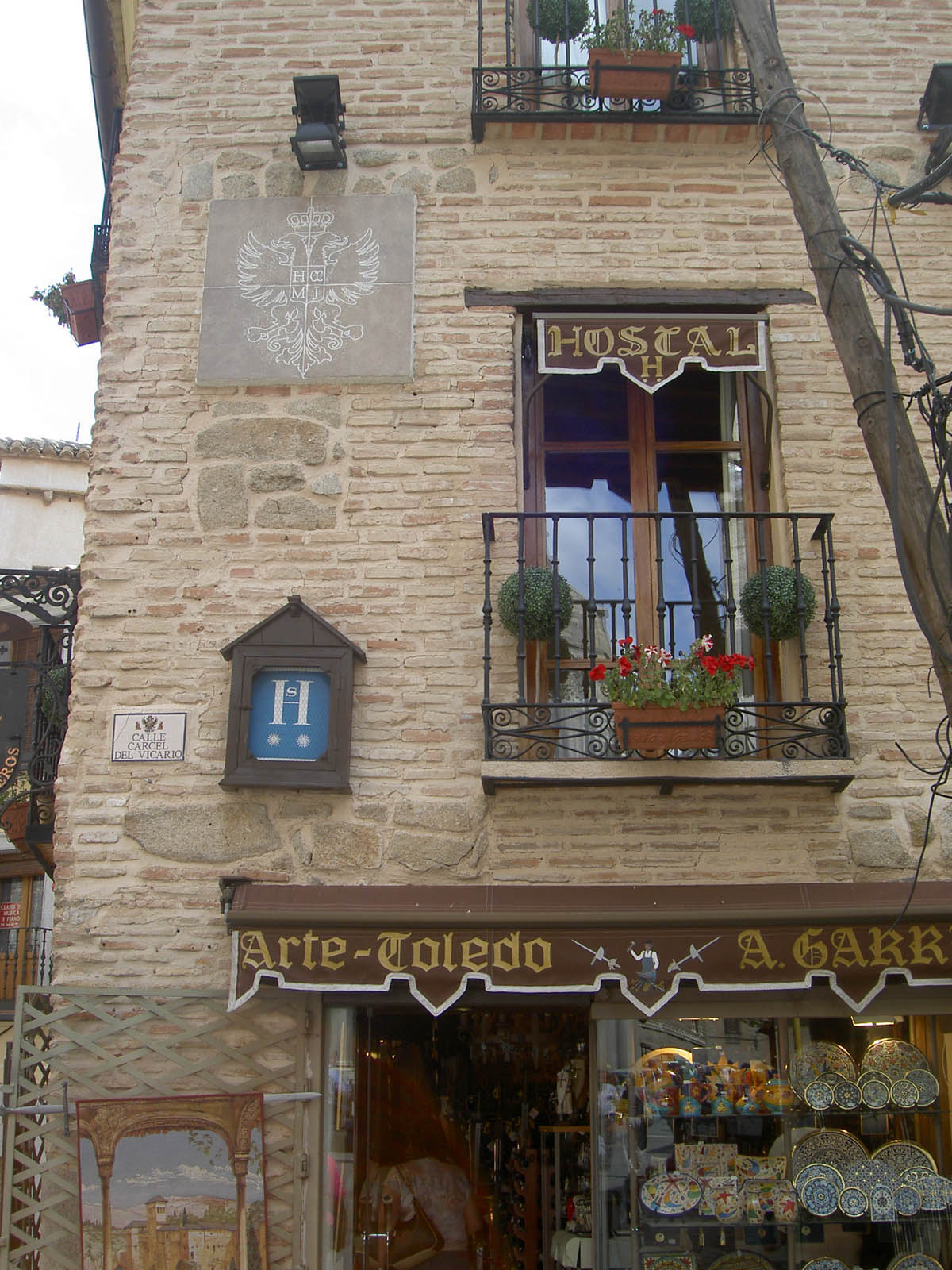 Balcony of a hostel in Toledo Spain.